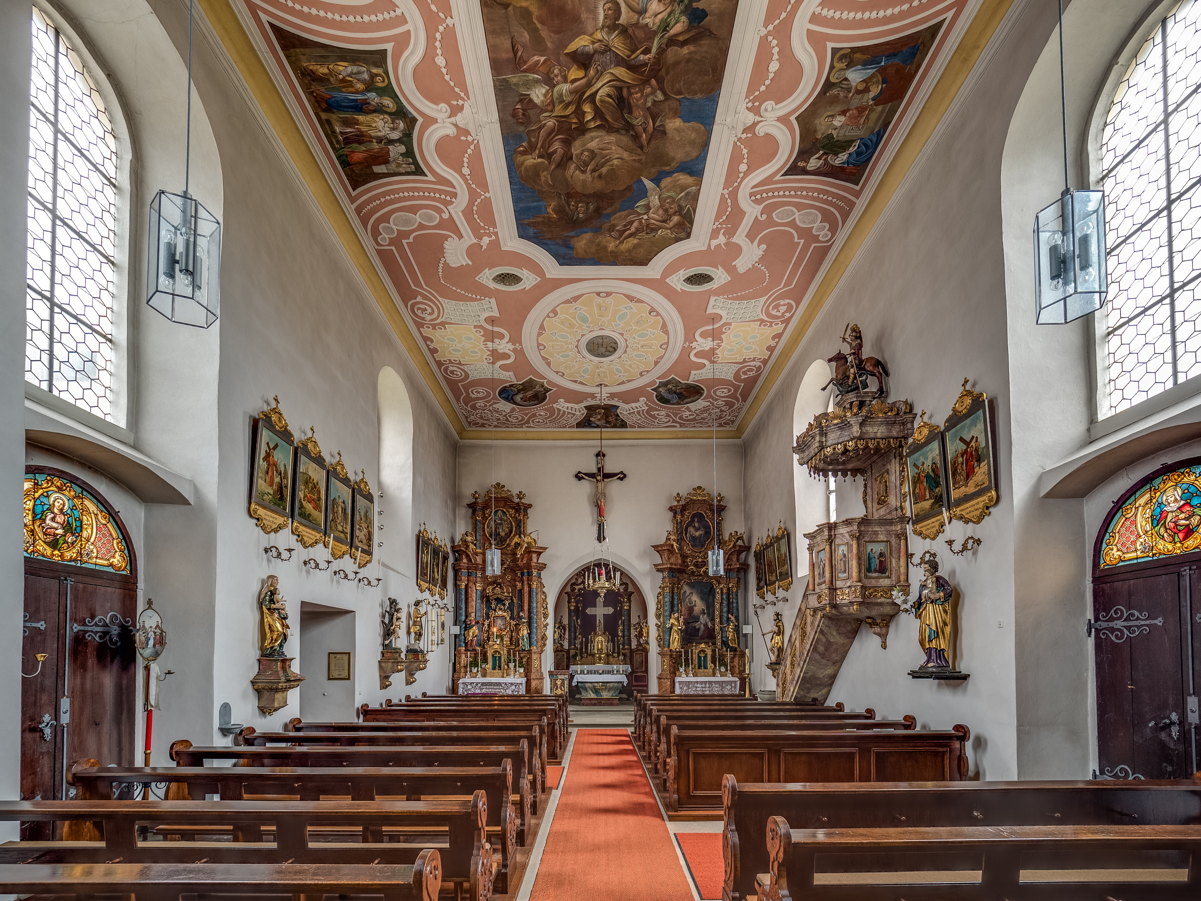 Kath. Parish Church of St. Bartholomew